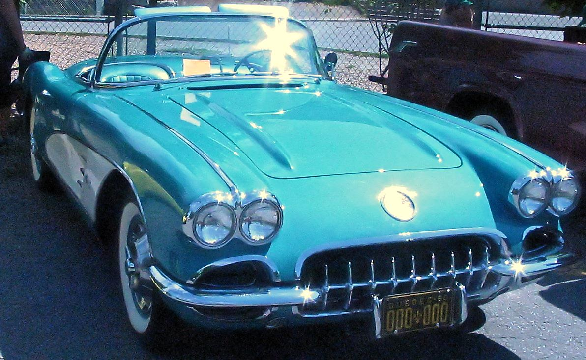 1960 Chevrolet Corvette photographed in Laval, Quebec, Canada at the Auto classique Laval.